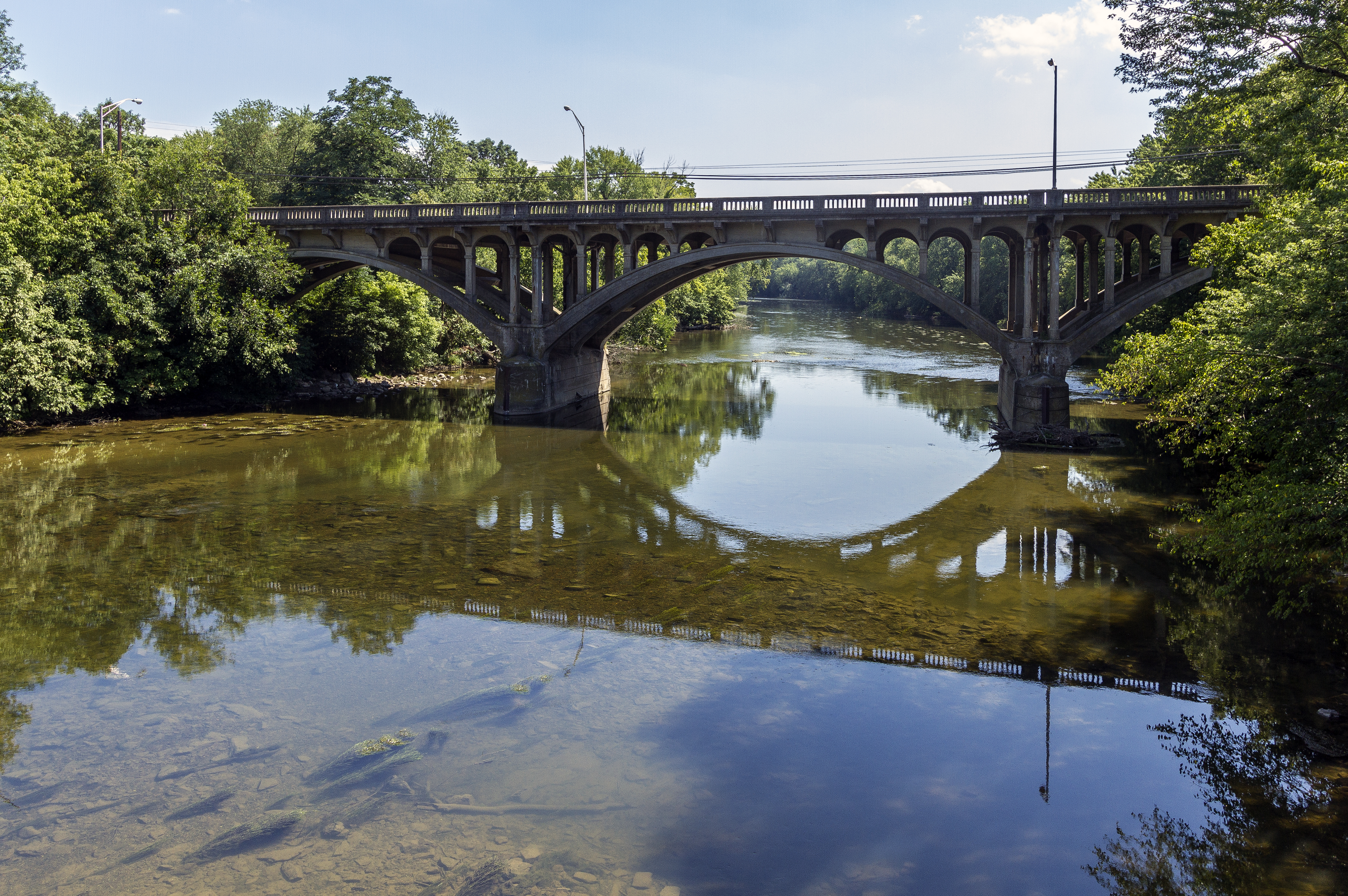 US 40 bridge over Conococheague Creek, Maryland, USA, looking south.